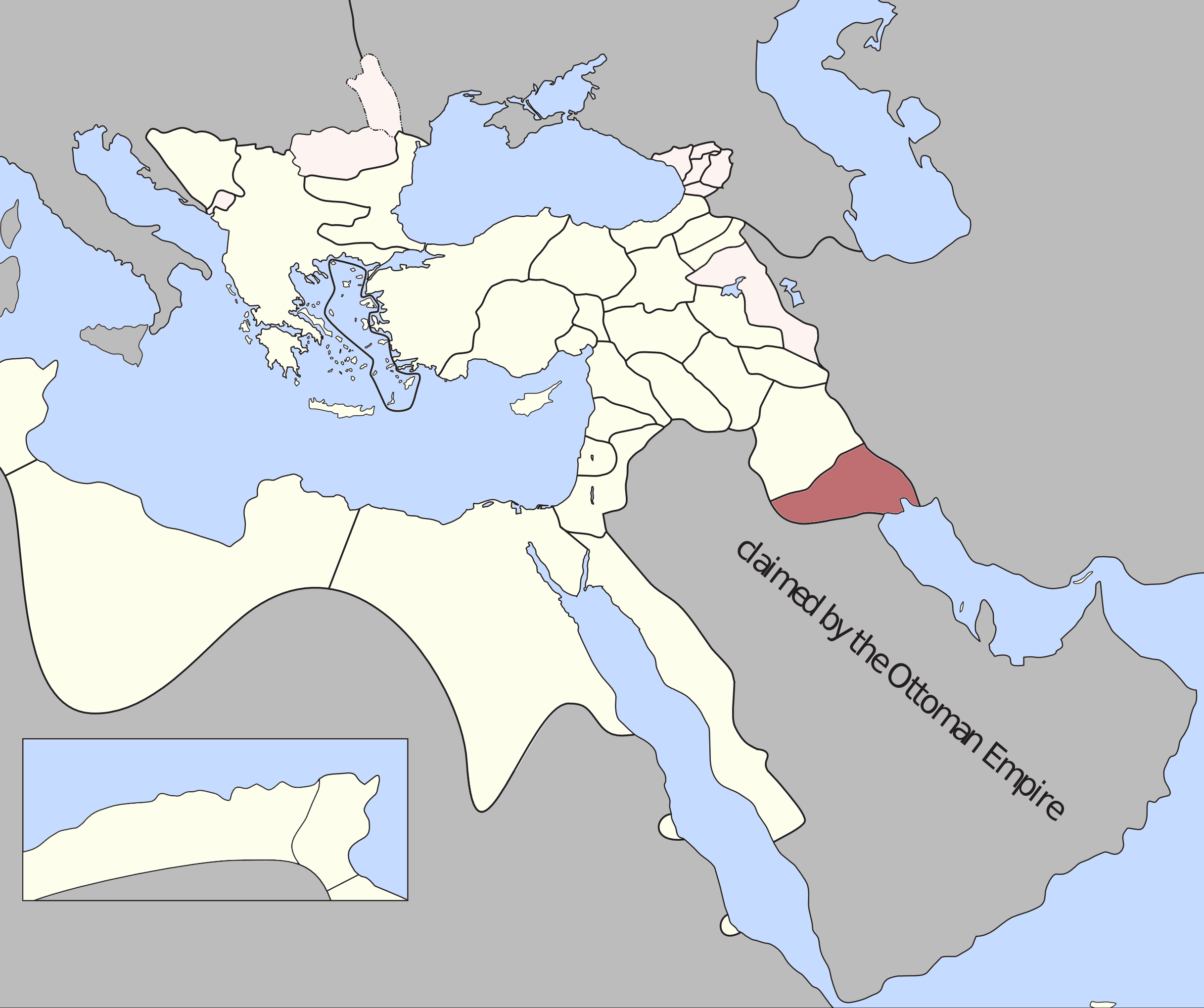 XY Eyalet, Ottoman Empire (1795). Source: A Brief History of the Late Ottoman Empire at Google Books By M. Sukru Hanioglu, Figure 1